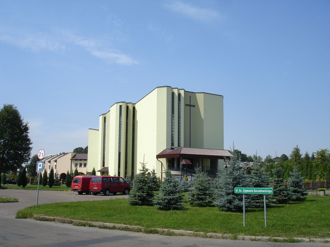 Sanok (district Wójtostwo) latin church parish